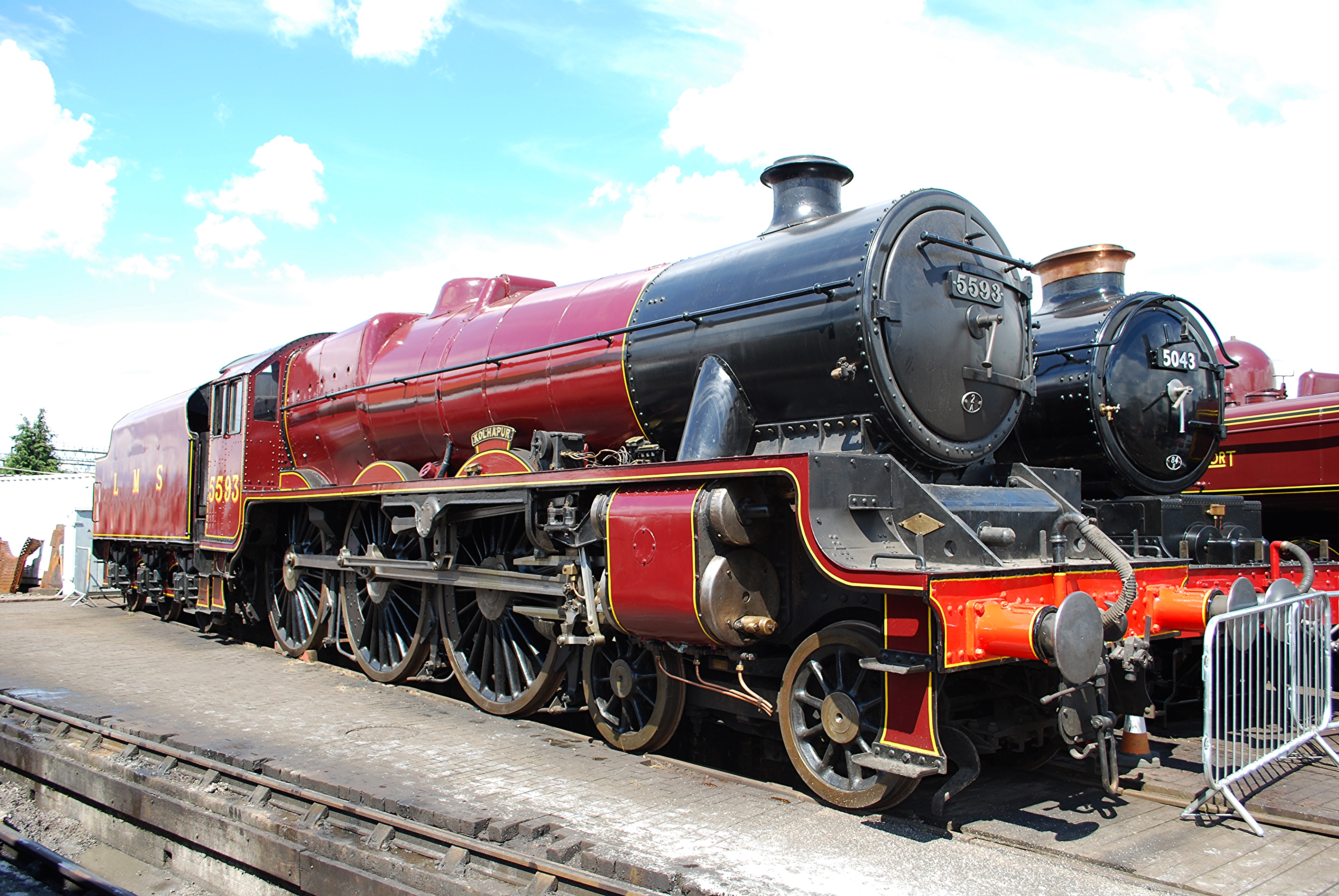 5593 in LMS red, overexposed sky